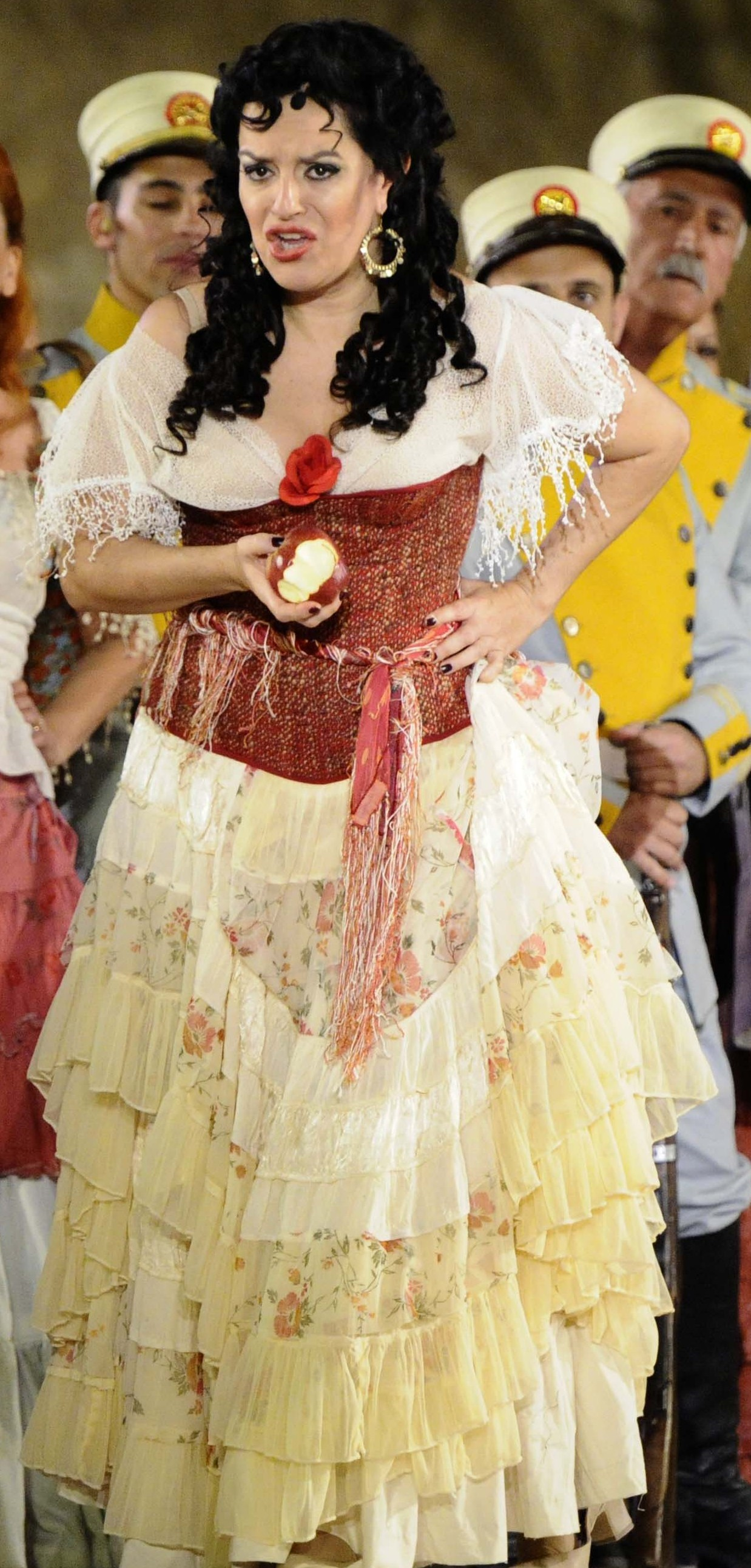 Photo by Yossi Zwecker